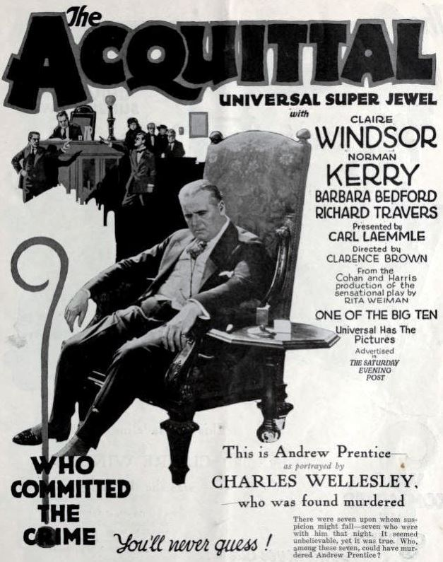 Advertisement for the American drama film The Acquittal (1923) with Charles Wellesley, on page 1 of the October 27, 1923 Universal Weekly.